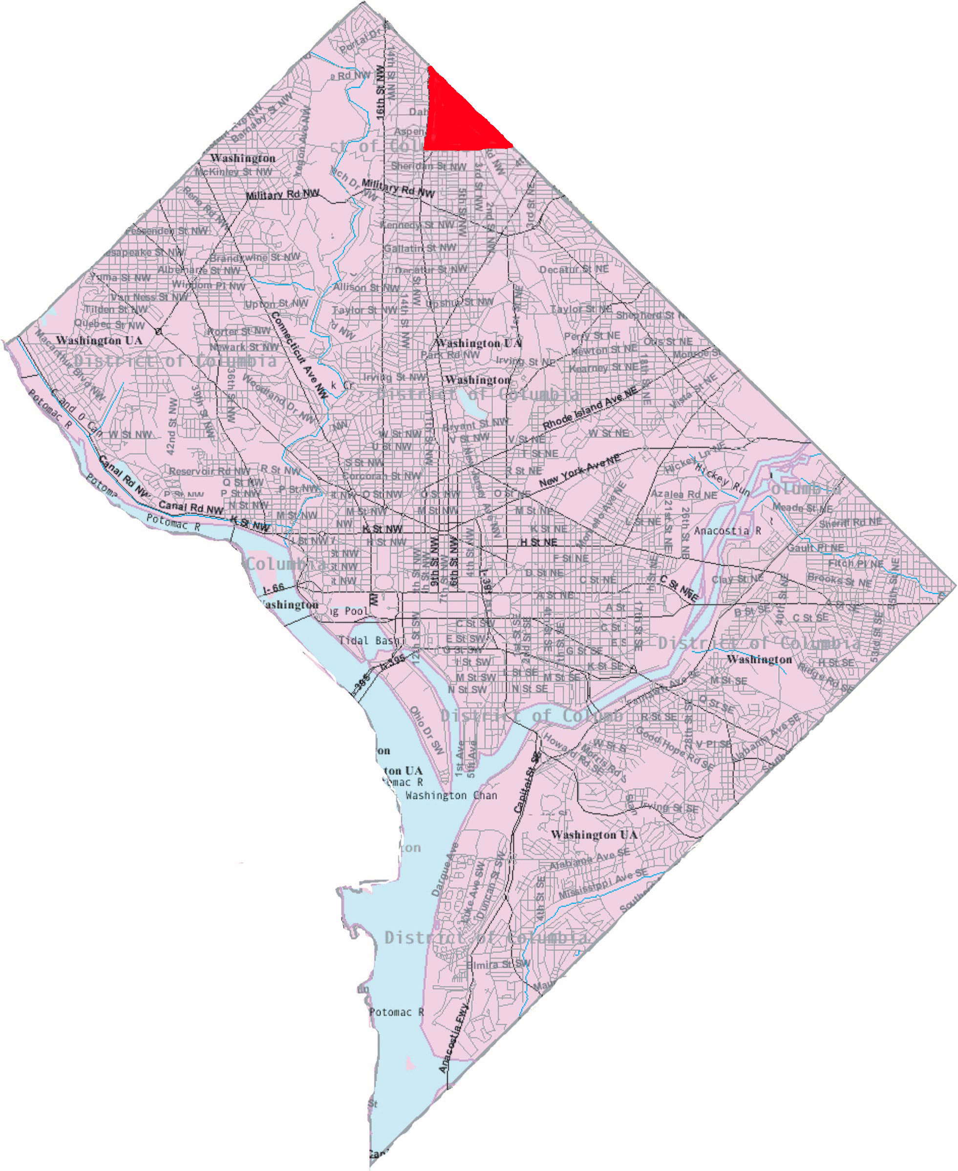 This image is a modified version of a self-generated reference map from the U.S. Census Bureau's American Factfinder at , showing the Takoma neighborhood in Washington, D.C.